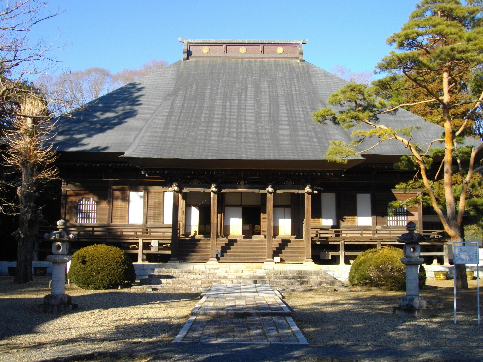 Honji-Senju-ji Mieido